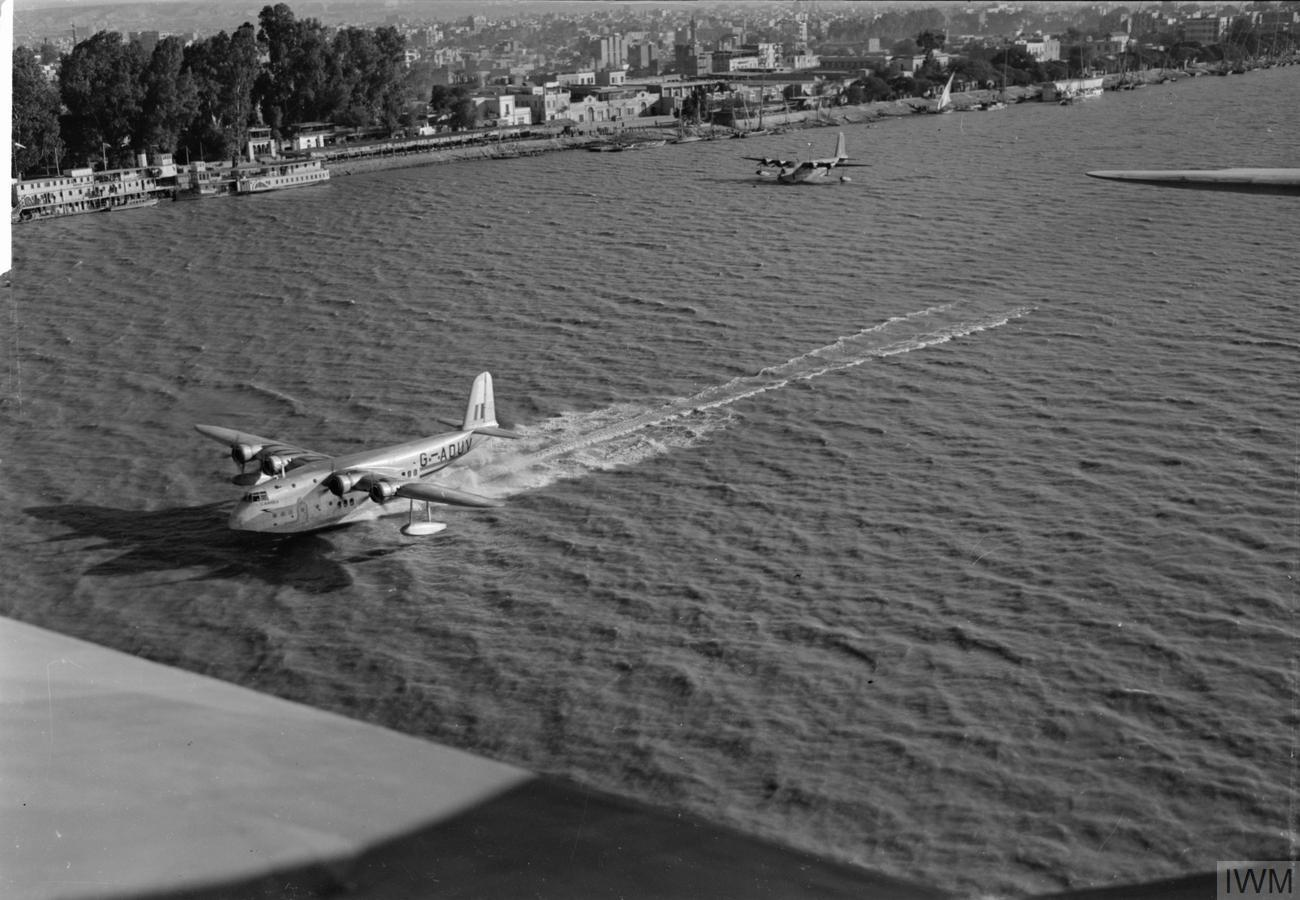 British Overseas Airways Corporation and Qantas, 1940-1945. Short S.23 'C' Class Empire Flying Boat, G-ADUV "Cambria" of BOAC, taking off from the Nile at Rod-el-Farag flying boat base, Cairo.